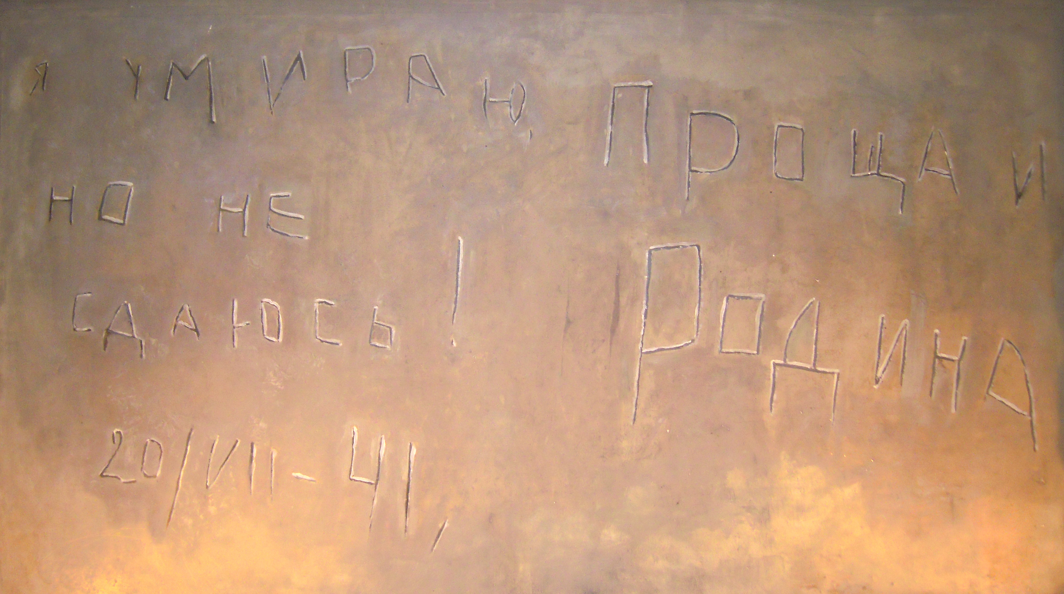 A copy of the famous inscription: "I ​​am dying, but not giving up! Farewell, Motherland" at Brest Fortress Defense Museum.